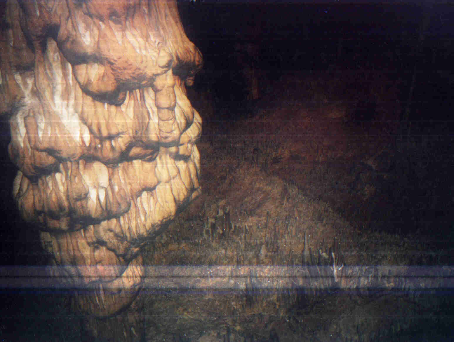 Stalactite in Baradla Cave, Aggtelek, Hungary